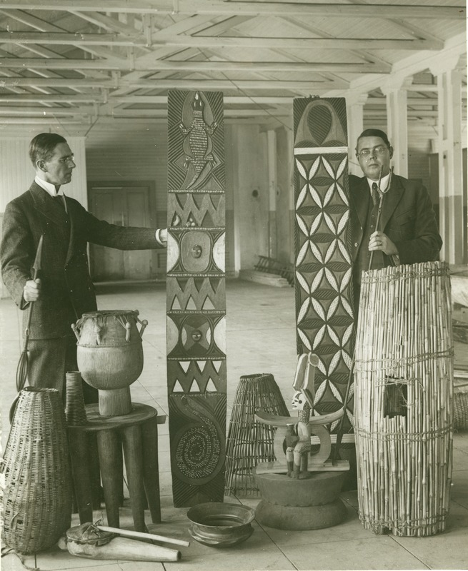 Gerhard Lindblom (left) och Gustaf Bolinder (right) preparing an exhibition of West African artefacts in Stockholm 1931